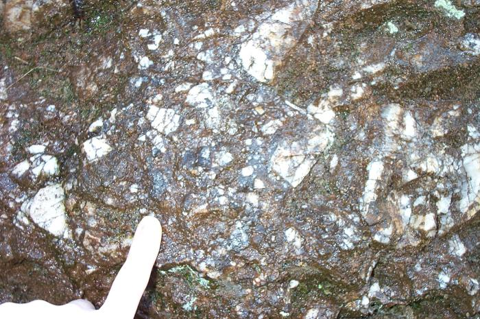 A picture I took during geological fieldwork of an outcrop of hydrothermal breccia at the Cloghleagh Iron Mine, county Wicklow, Ireland (near 53° 11' 30"N, 06° 25' 30"W UTM). The hydrothermal breccia is about 12 million years old, determined by Ar/Ar dating.